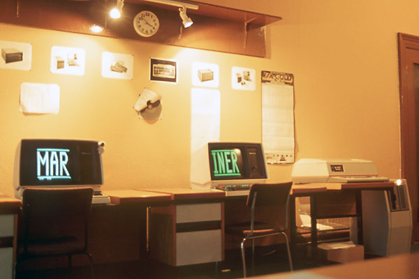 To the far right the distinctive grey case of the floor standing Micromation Mariner microcomputer system. Also in the picture two Elbit RS-232 VDUs and a Mannesmann Tally dot matrix printer. Photographs on the wall show various Micromation S-100 cards plus their earlier M-System microcomputer. Also note the "peeled" 8-inch floppy disk. Picture taken in the early 1980s in the office of EWL Computers, Micromation's Scottish distributor.